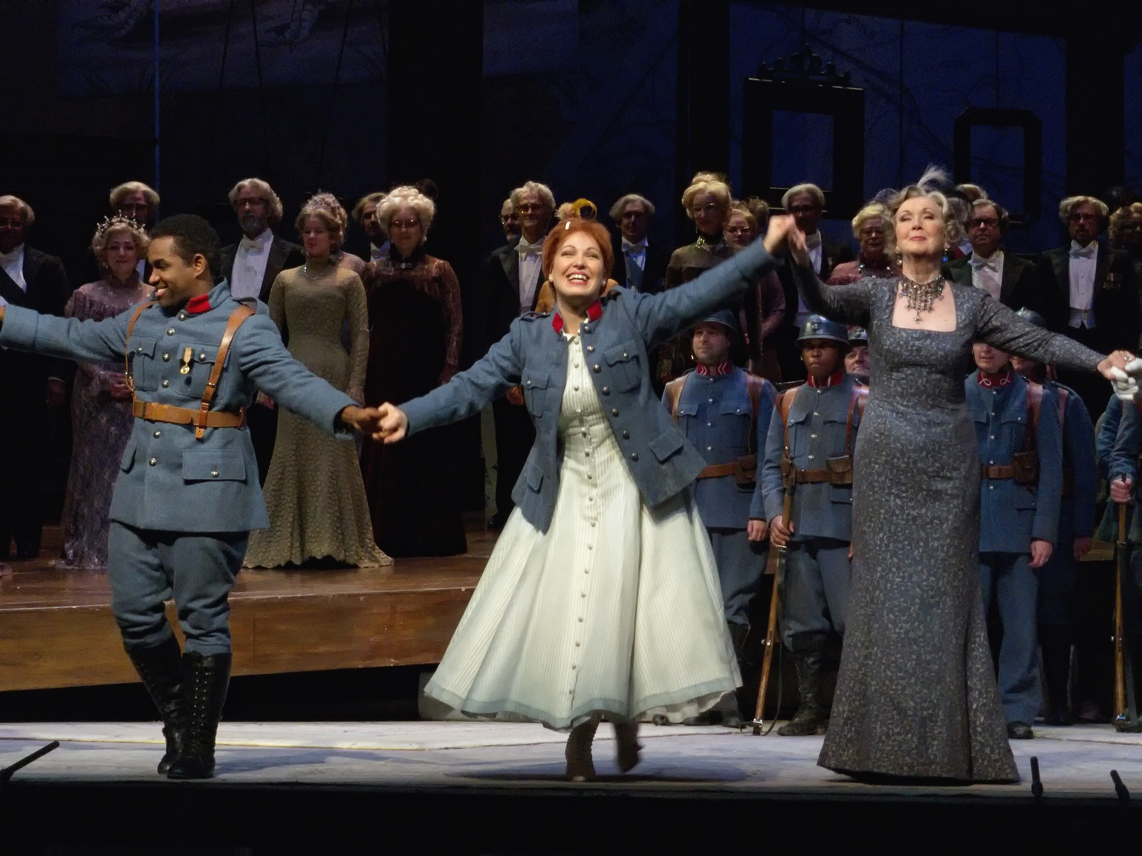 (L to R) Lawrence Brownlee – Tonio Nino Machaidze – Marie Ann Murray – Marquise of Berkenfield La fille du régiment (The Daughter of the Regiment) Metropolitan Opera House, December 24, 2011